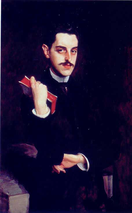 George Washington Vanderbilt John Singer Sargent -- American painter 1890 The Biltmore House, Ashville, North Carolina Oil on Canvas 106.6 x 67.3 cm (42 x 26 1/2 in.) Inscribed ul: John S Sargent Inscribed ur: 1890 Jpg: local